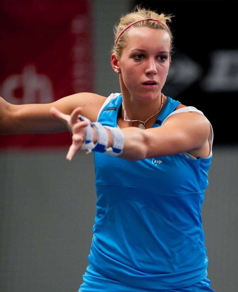 German tennis player Dinah Pfizenmaier on the court in Biberach in 2011